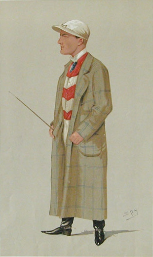 Caricature of Herbert Mornington Cannon. Caption read "Morny".